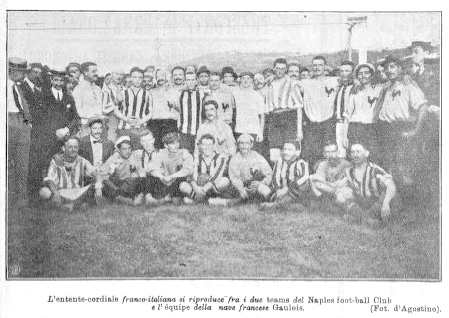 Friendly Naples-Gaulois played in 1909.